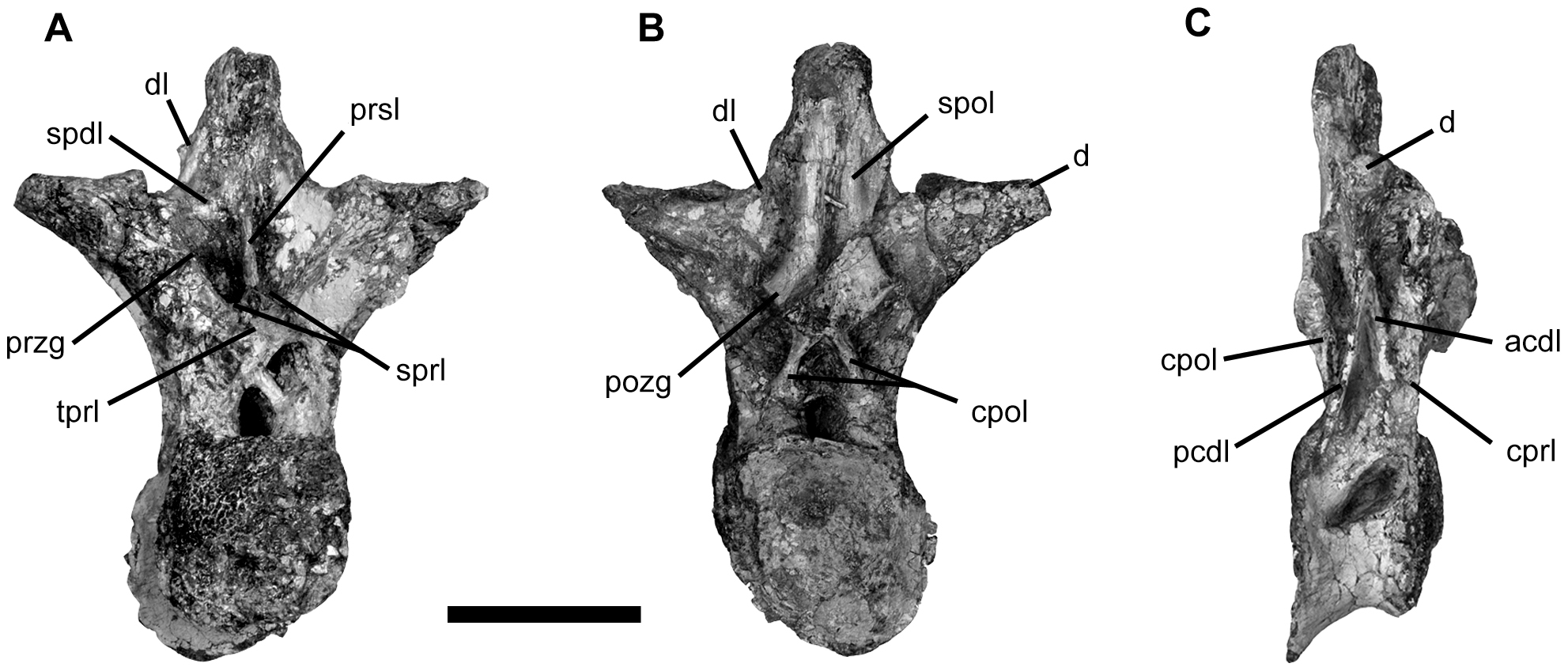 Vertebrae of Tapuiasaurus macedoi, gen. n. sp. n. Dorsal vertebra of the holotype MZSP-PV 807 in anterior (A), posterior (B), and right lateral (C) views. The lamination nomenclature follows previous workers [28], [33]. Abbreviations: acdl, anterior centrodiapophyseal lamina; cpol, centropostzygapophyseal lamina; cprl, centroprezygapophyseal lamina; d, diapophysis; dl, diapophyseal lamina; pcdl, posterior centrodiapophyseal lamina; pozg, postzygapophysis; prsl, prespinal lamina; przg, prezygapophysis; spdl, spinodiapophyseal lamina; spol, spinopostzygapophyseal lamina; sprl, spinoprezygapophyseal lamina; tprl, intraprezygapophyseal lamina. Scale bars represents 10 cm.